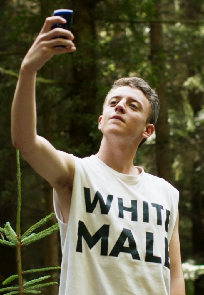 Filmstill from BESTER MANN - Director: Florian Forsch, Cinematographer: Dino Osmanović